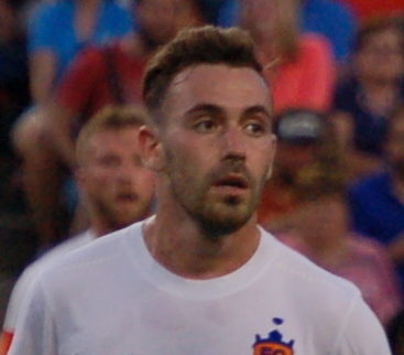 Francisco Narbón (CIN) Taken during an exhibition match between FC Cincinnati and Crystal Palace F.C. at Nippert Stadium in Cincinnati on July 16, 2016.